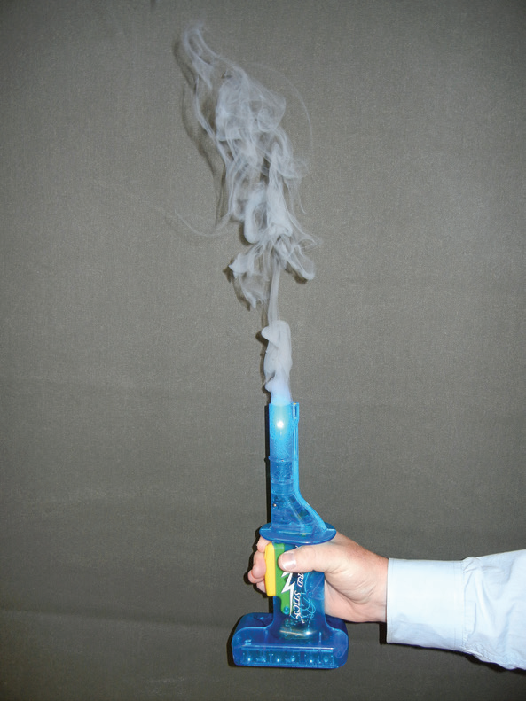 Figure 21. Smoke generator to visualize air flow. Smoke generators provide a low-cost method to visualize air flow patterns around control measures. Airflow visualization techniques can be used to help understand the patterns of airflow in and around exhaust hoods and pressure differences between adjacent areas/rooms.